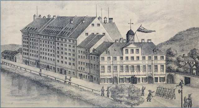 Cukrarna in Ljubljana served as a barracks.